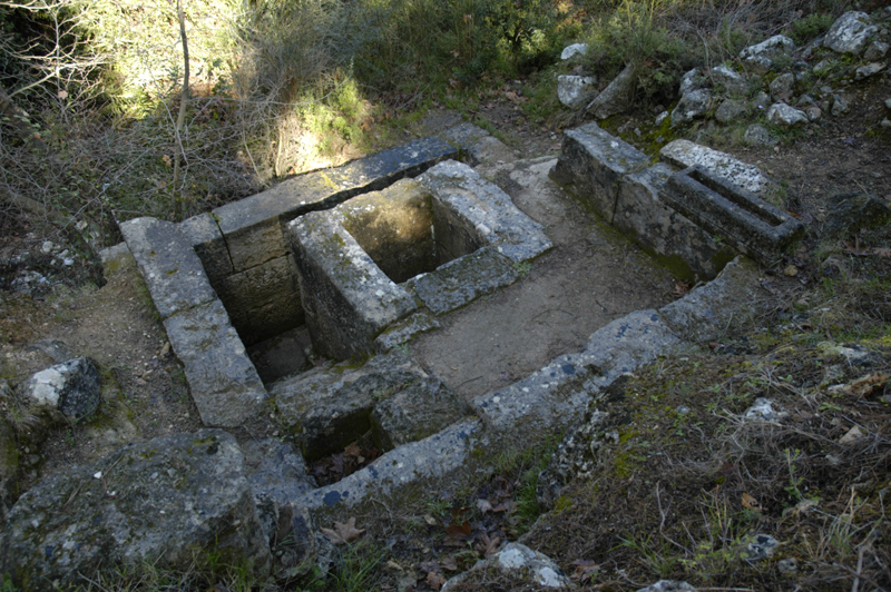 J. M. Harrington, personal digital image